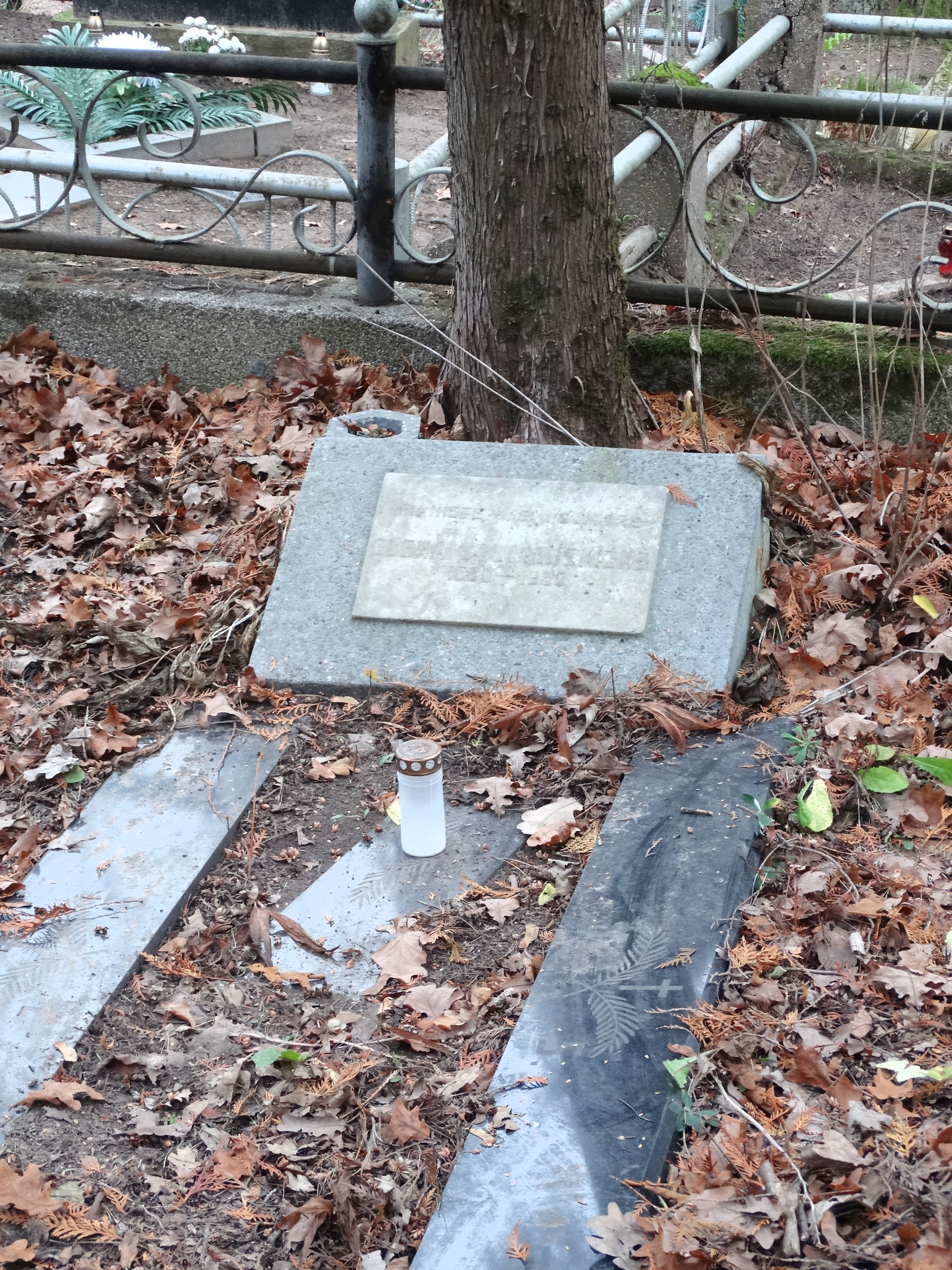 Tomb of Elena Laumenskienė, Eiguliai cemetery, Lithuania